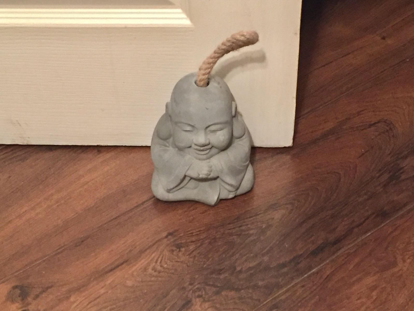 A decorative concrete doorstop. I took this photograph and I am releasing it into the public domain.